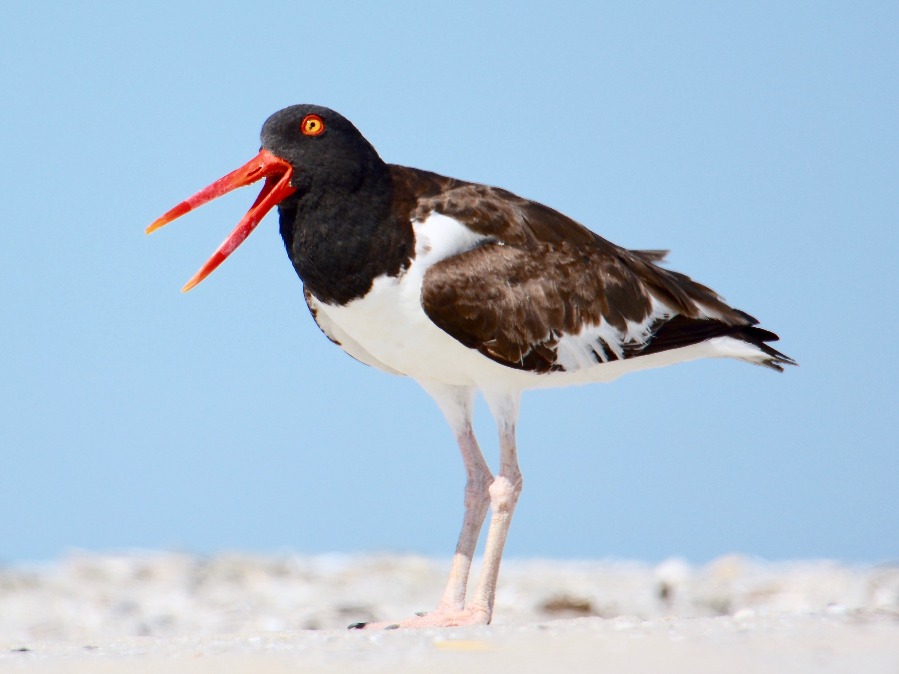 An American oystercatcher on the beach at Stone Harbor Point, Stone Harbor, New Jersey.